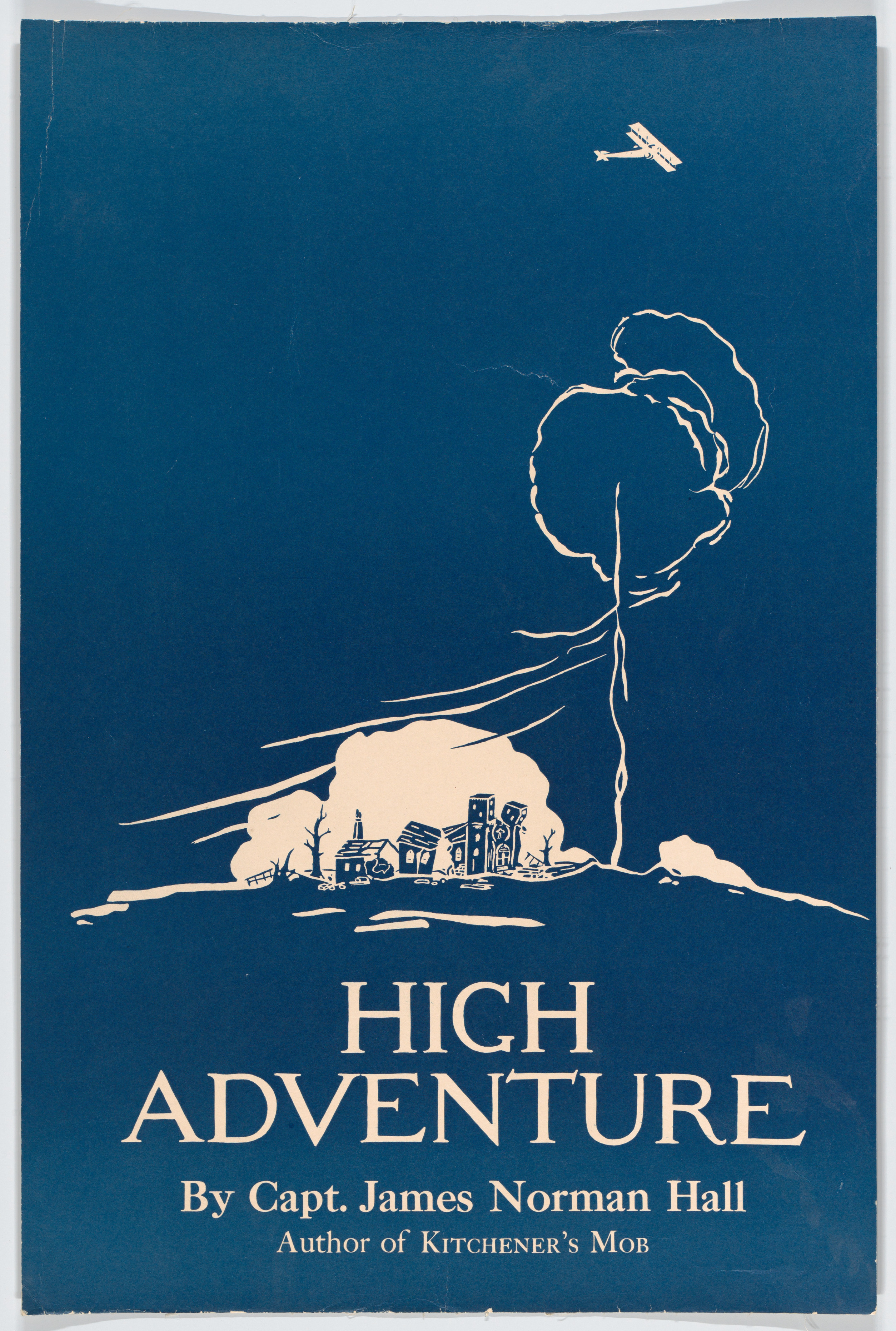 Print; Prints